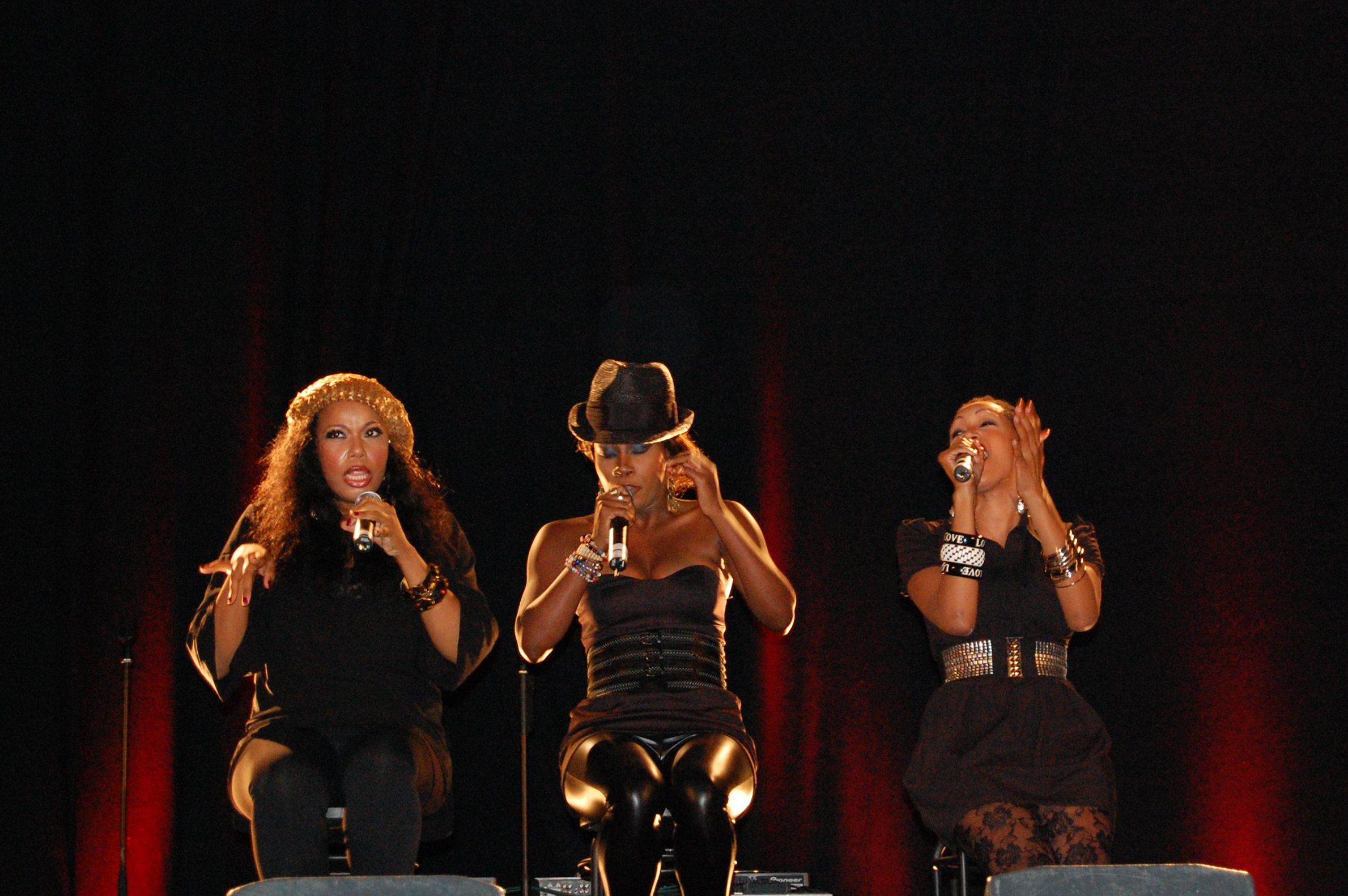 Gospel trio Trin-i-tee 5:7 performed songs from several of their albums, including some from Grammy-nominated T57. Members (from left) Adrian Anderson, Chanelle Hayes and Angel Taylor have sung and performed together for over a decade.